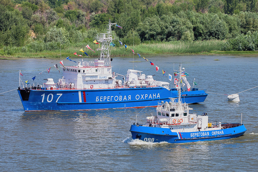 Astrakhanets and PSKA-295 in Astrakhan.